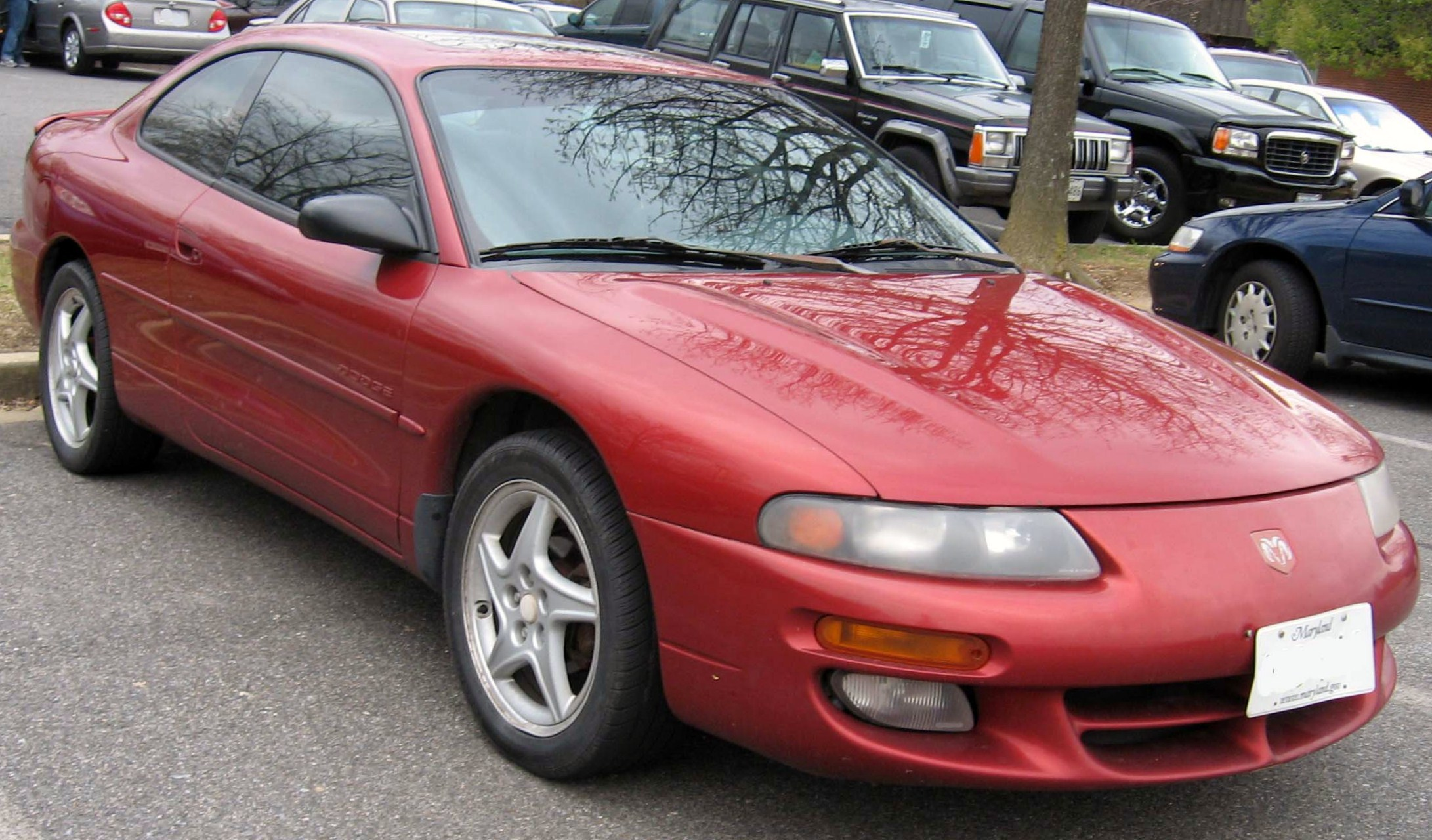 1995-2000 Dodge Avenger photographed in USA.